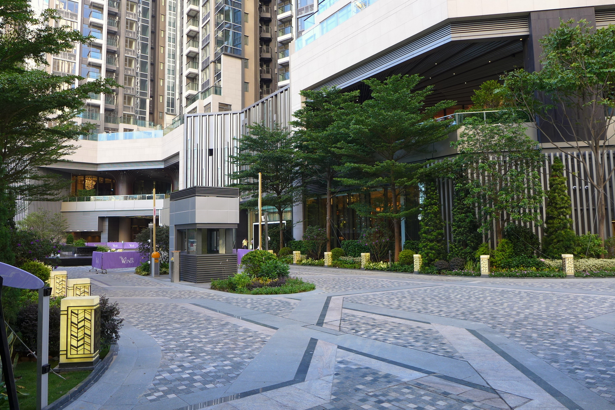 The Wings II GF Garden